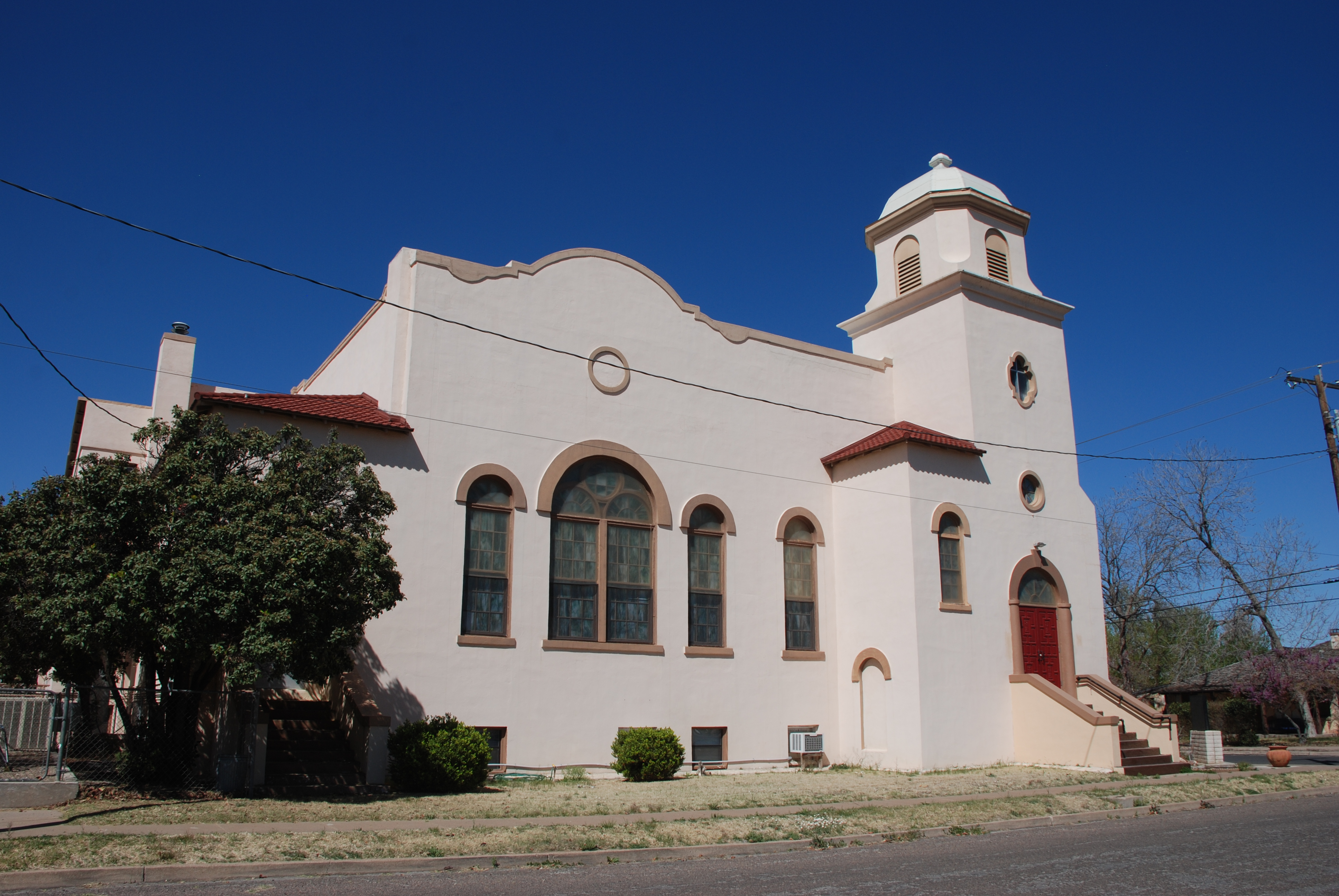 First Methodist Church (Alpine, Texas, USA)